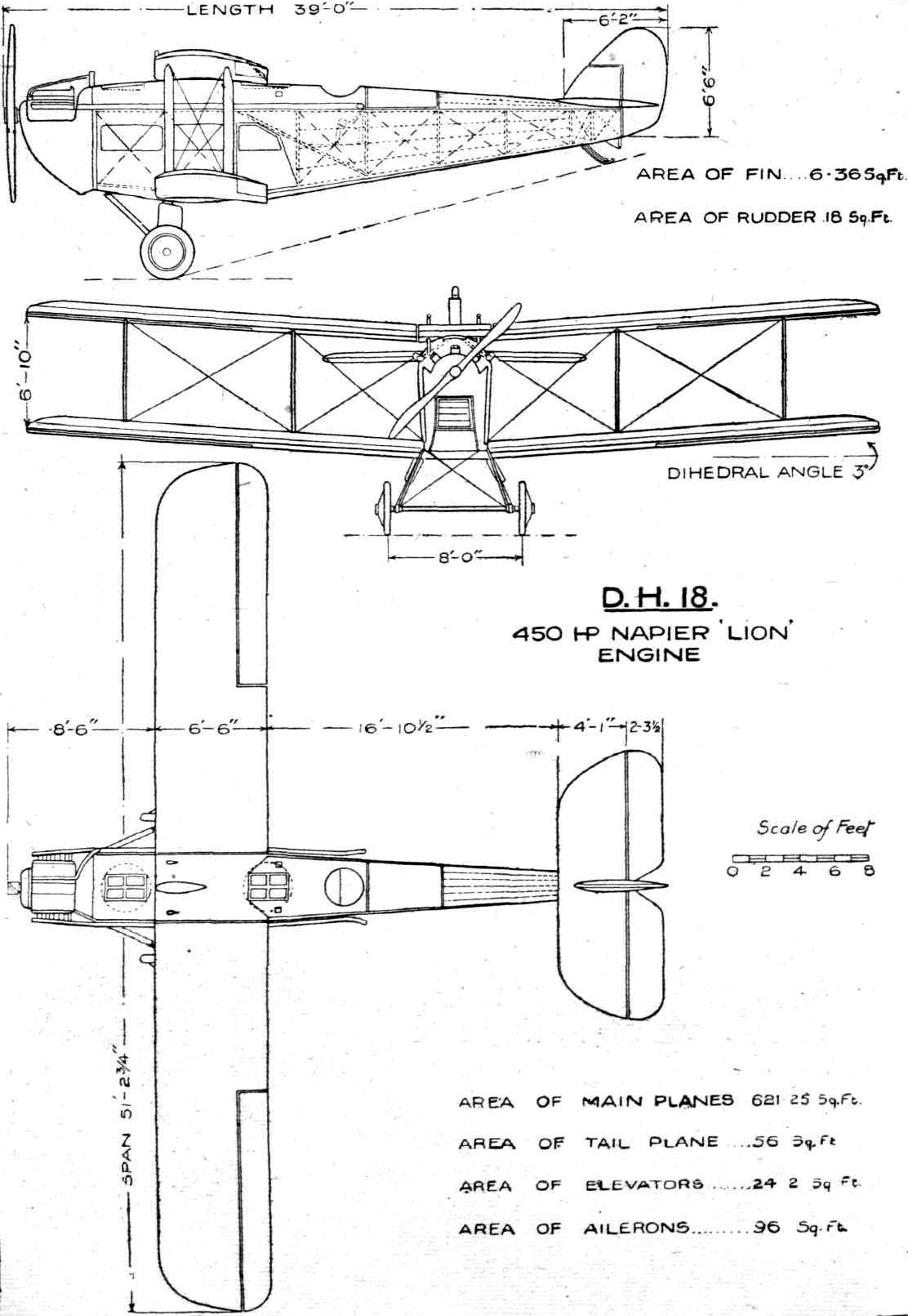 Three-view drawing of De Havilland DH.18 with Napier Lion engine.